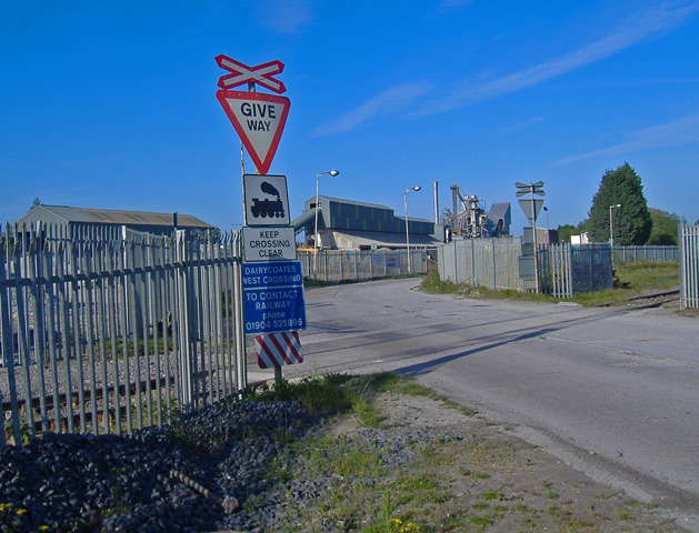 Dairycoates West level crossing The Tarmac works can be seen in the background.